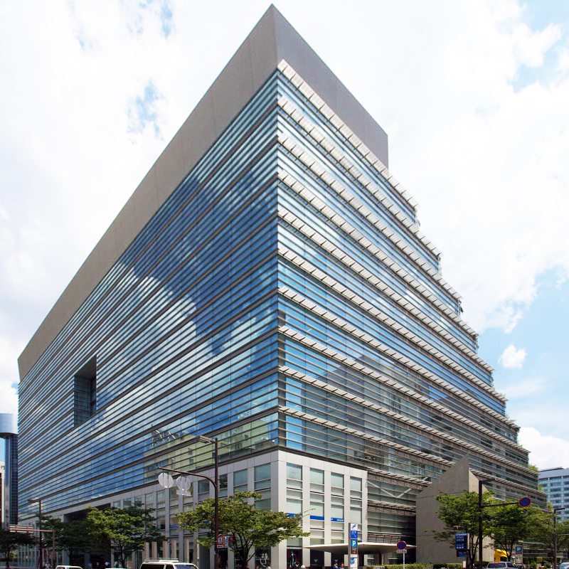 Acros Fukuoka building in Fukuoka city, Japan.